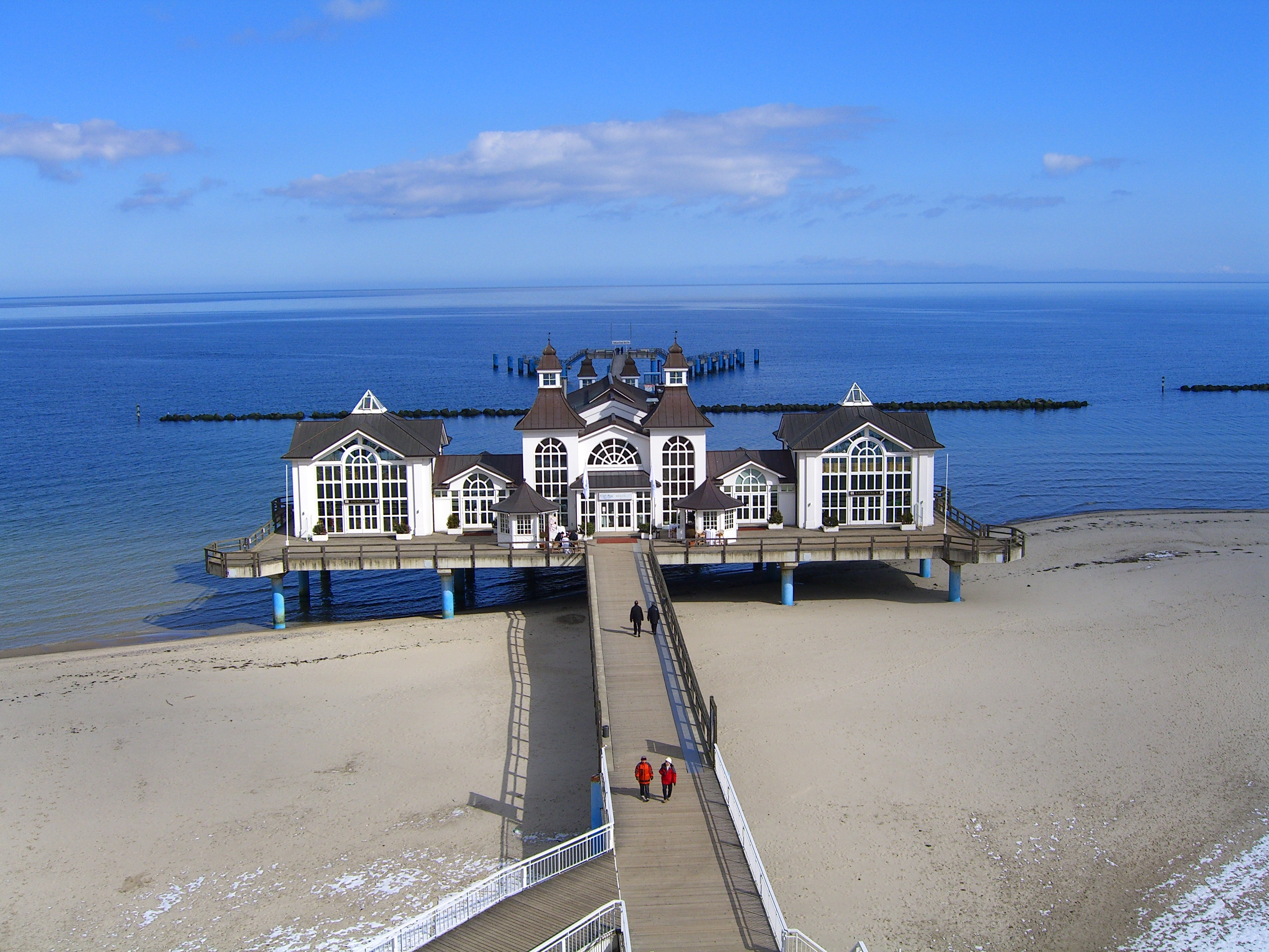 Sellin pier, Rügen